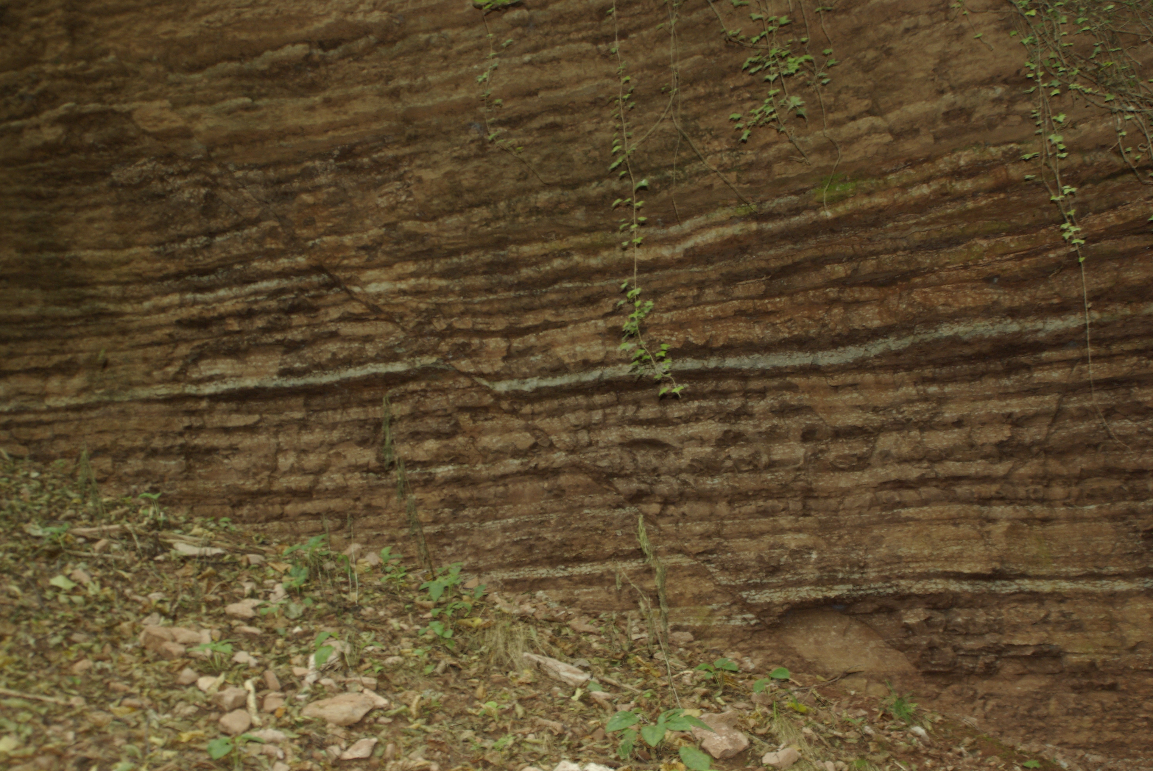 Normal fault - Toarcian limestone (Rosso ammonitico lombardo) Prealpi comasche